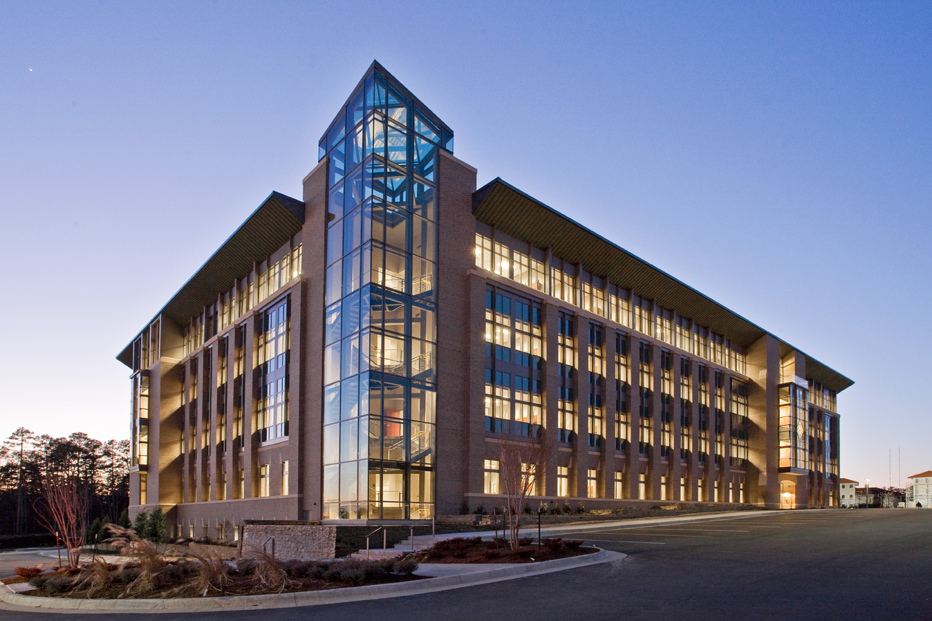 Bank OZK Headquarters